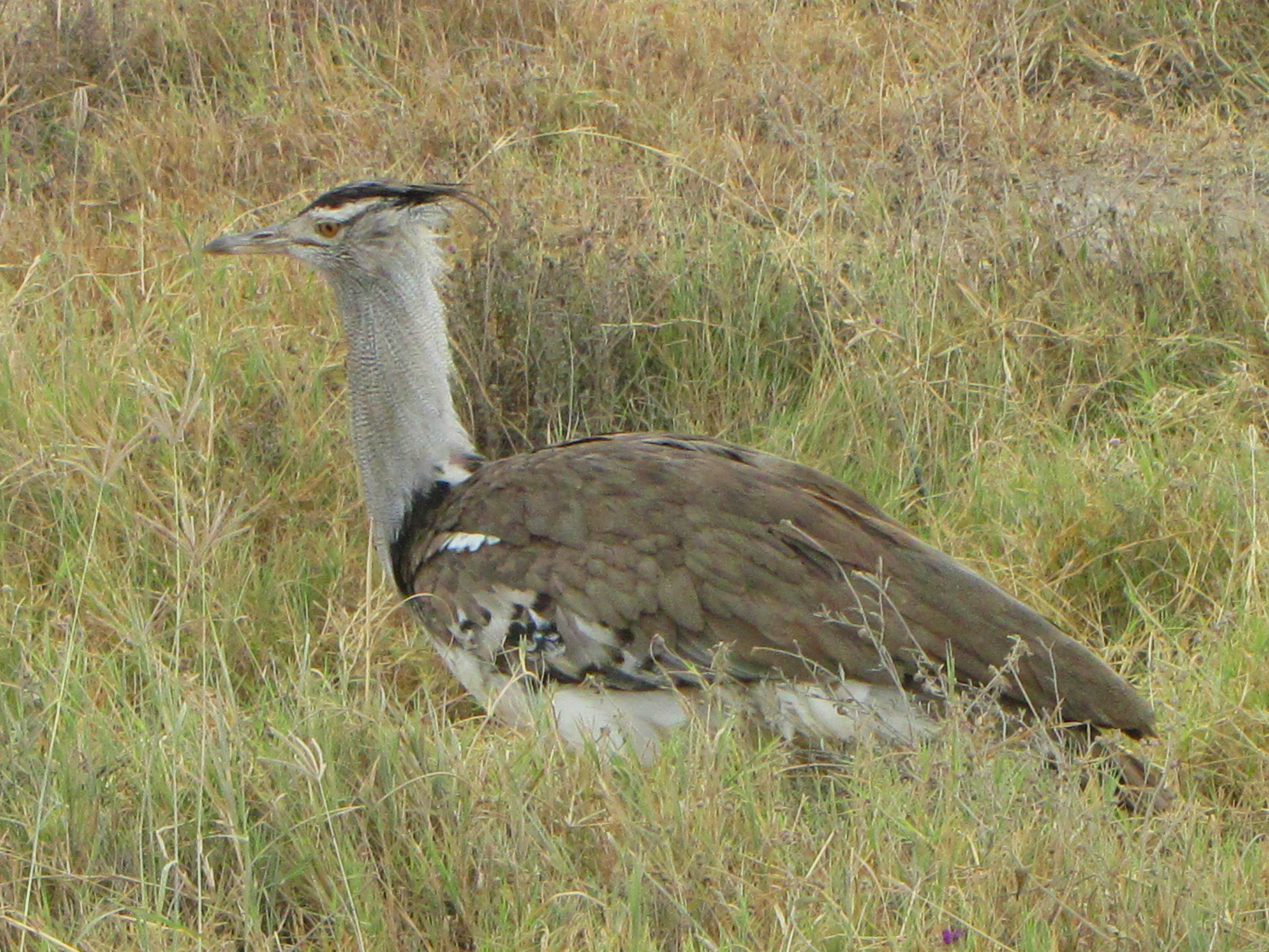 Kori Bustard (Ardeotis kori), female, Serengeti National Park, Tanzania